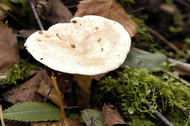 Lactarius spec. from Commanster, Belgium. The determination of the species shown in this picture has been verified.